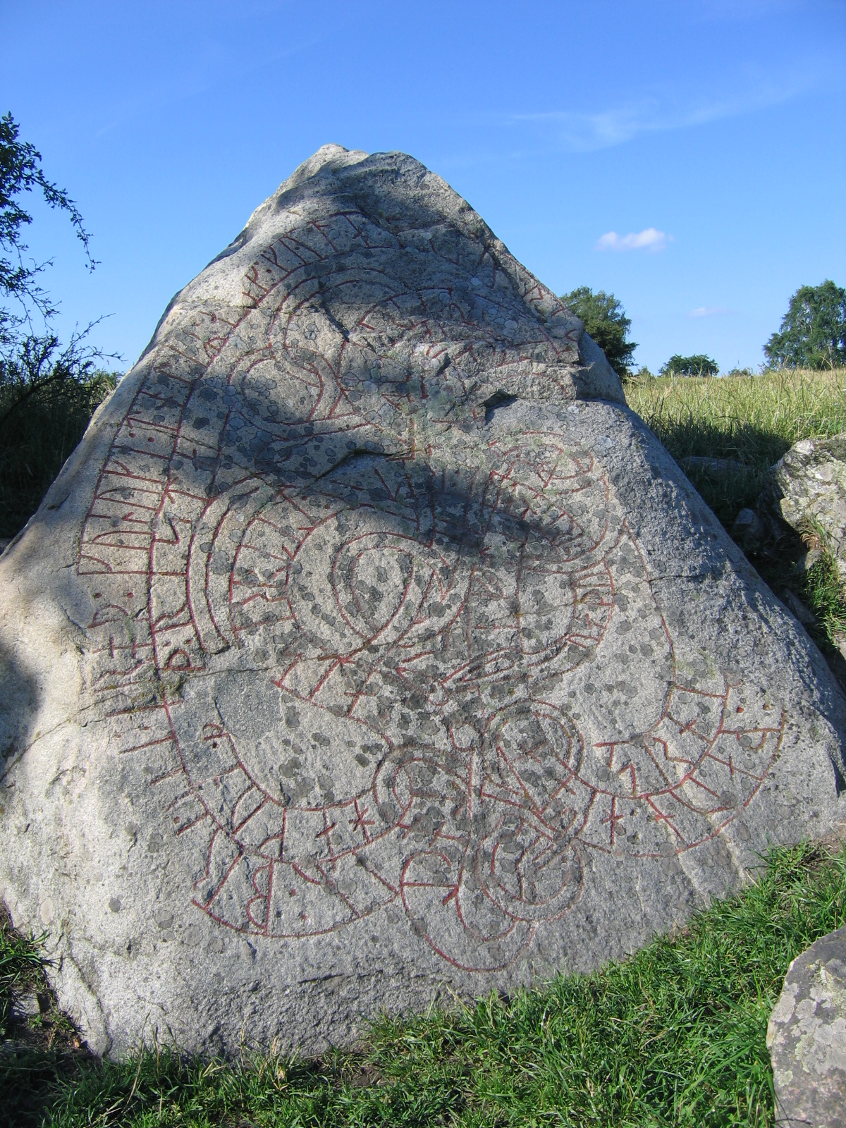 Runestone, Uppland, Sweden